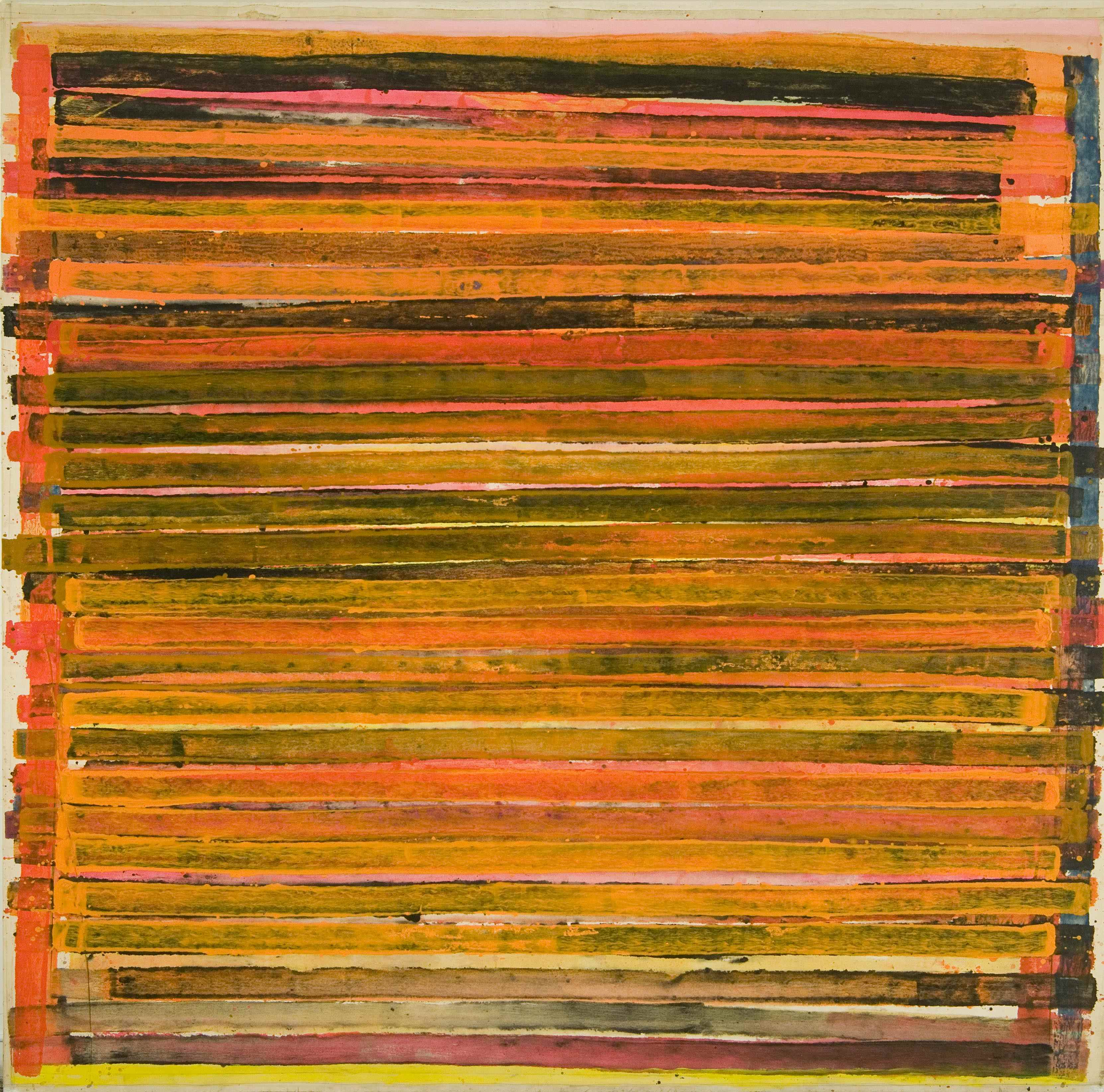 Thornton Willis "Red Wall" 1969, Acrylic on Canvas, 103x108 inches. Other information This one file represents 10 years of the artist early work.